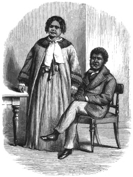 Illustration from The Last of the Tasmanians - Walter George Arthur, and his wife Maryann the Half-Caste.